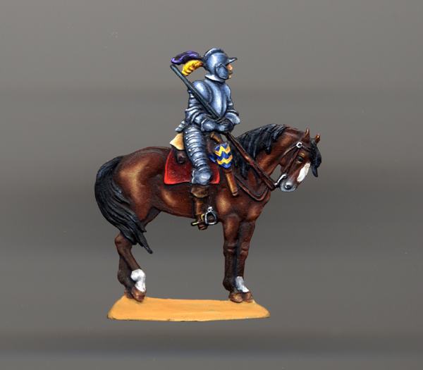 30mm flat tin figure, cuirassier 30-year war, drawing Ludwig Madlener, Engraver Ludwig Frank, Edition Müller, painting Louis Liljedahl